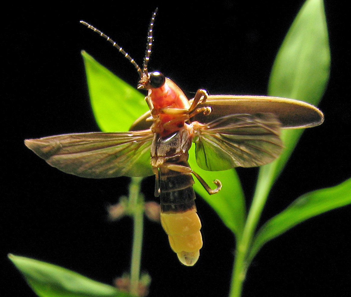 Photinus pyralis, common eastern USA firefly, lightning bug